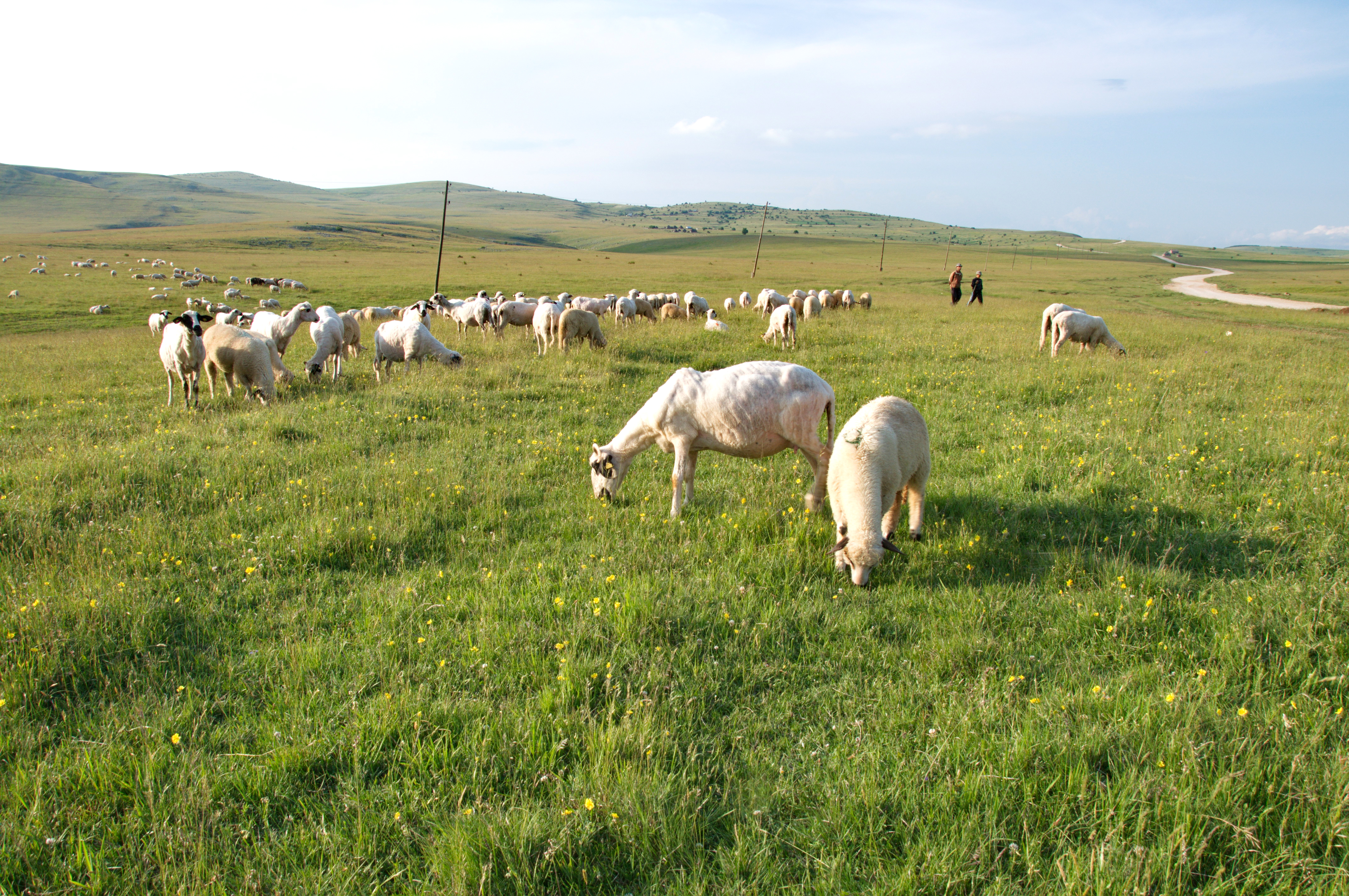 Panoramic scenes of the Pester plateau, karst region in southwestern Serbia. It situated in the area of Raska. The most part of Pešter is located in the municipality of Sjenica. The relief of Pester Plateau is characterized by low, hilly terrain, streams of clean water and vast meadows that are used for grazing sheep and cattle. Pester field is a region of outstanding natural value. A part of Pester is the Uvac River Canyon. In the canyon of the river Uvac nests large colony of eagles, vultures - Gyps fulvus.